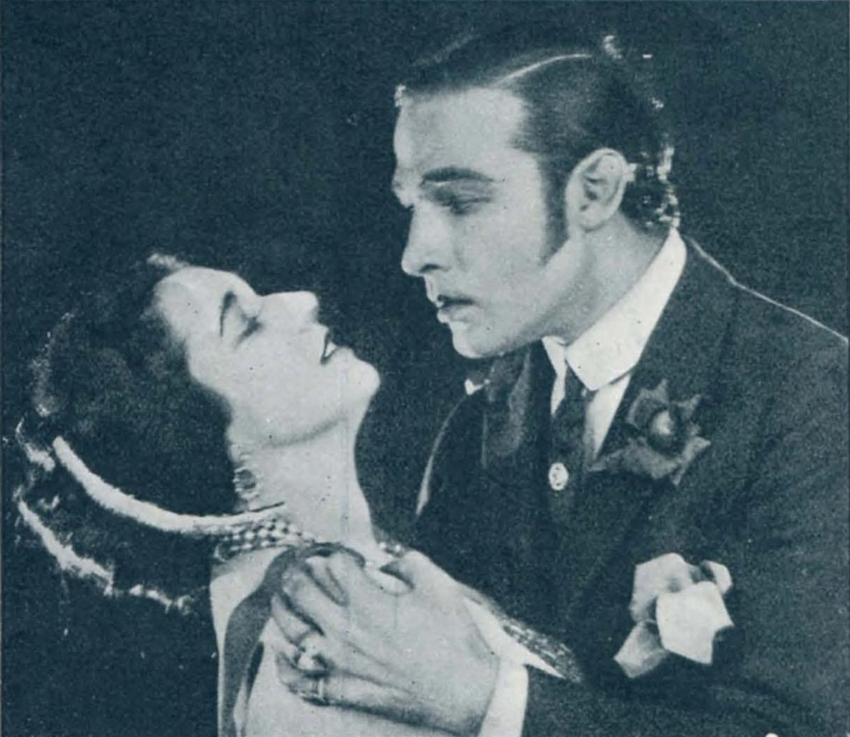 Still from the American film Blood and Sand (1922) with Nita Naldi and Rudolph Valentino, on page 26 of the September 1922 Film Fun.